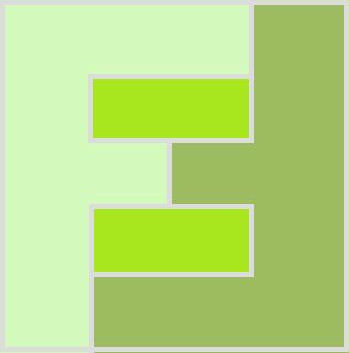 Logo of Icelandic Prison Service